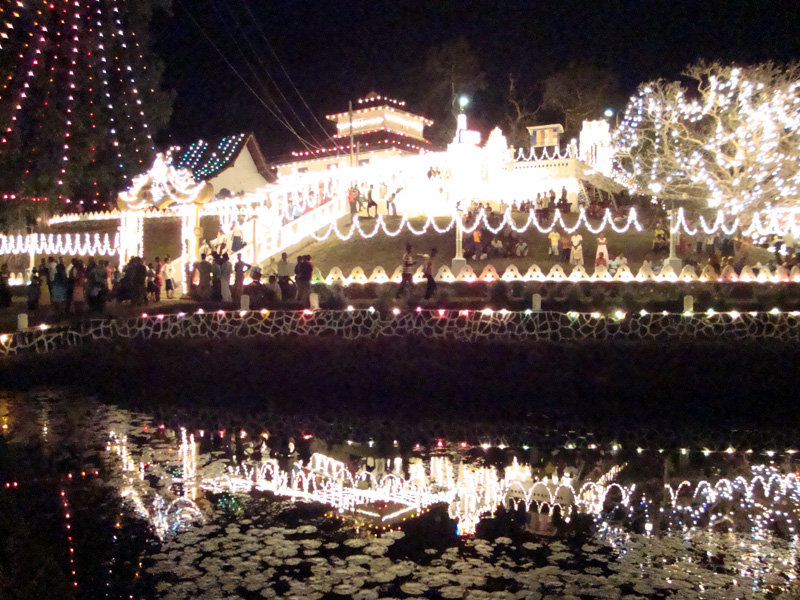 Pilana Temple at night time during a perahera festival season